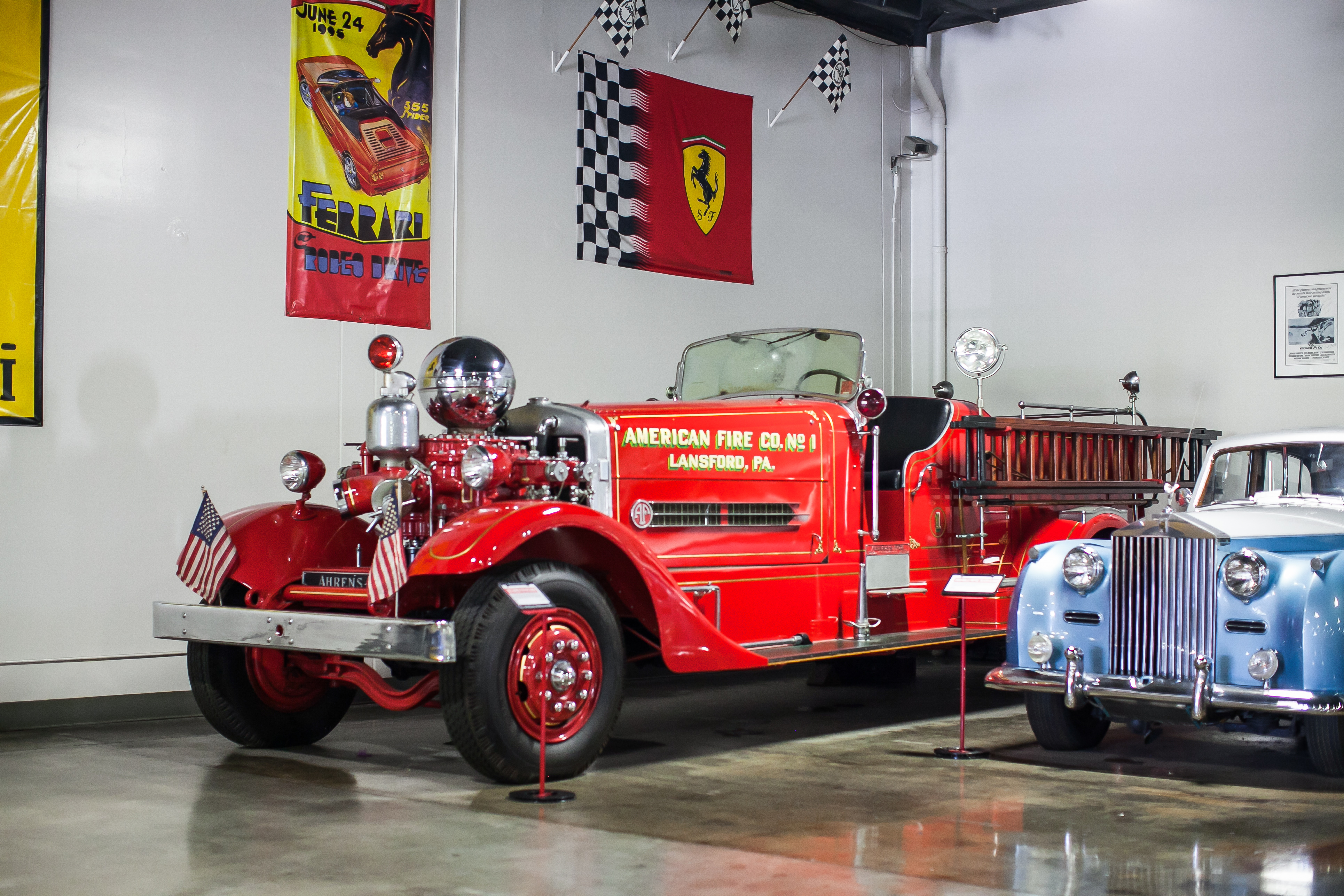 This 1937 Ahrens-Fox Engine at the Marconi Automotive Museum